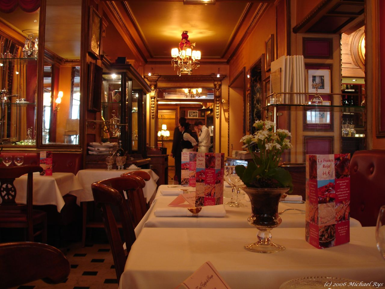 Tables at Le Procope, Cafe Procope in Paris